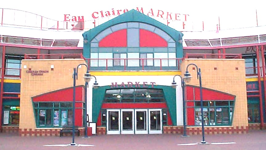 Subject: Eau Claire Market Location: 202, 200 Barclay Parade SW, Eau Claire, Calgary, Alberta, Canada Photographer: User:Thivierr Date taken: November 27, 2005